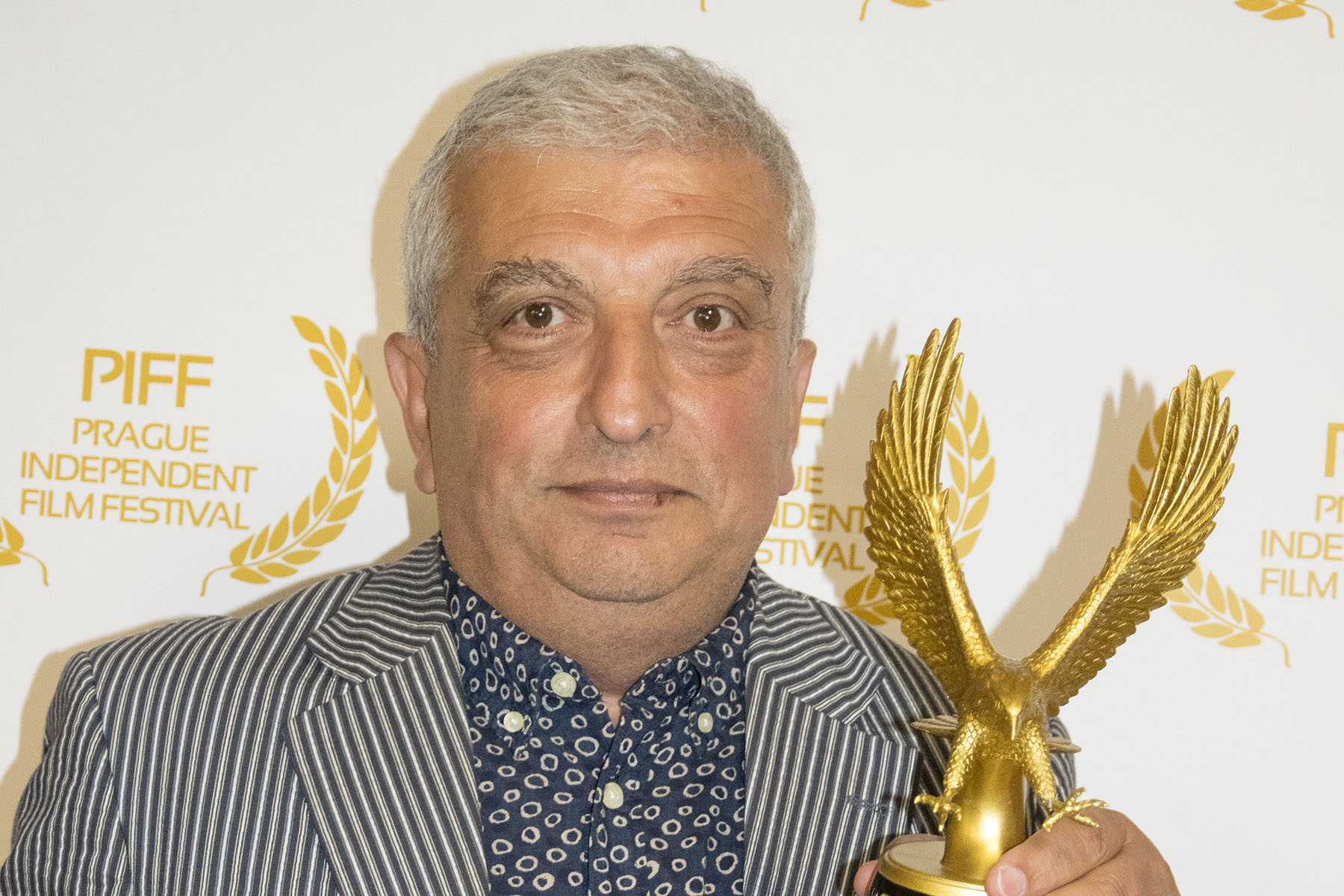 Kostadin Bonev with the Grand Prix which he received for the film "Sinking of Sozopol" (Потъването на Созопол) at the Prague Independent Film Festival in August, 2016.